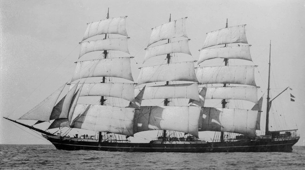 Garthpool ex Jutepolis[1]